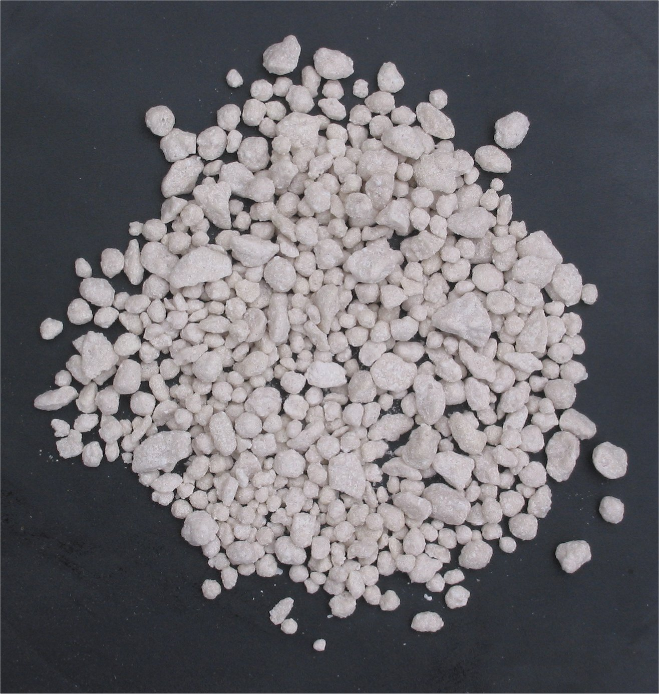 (Patentkali) Potassium sulfate with magnesium